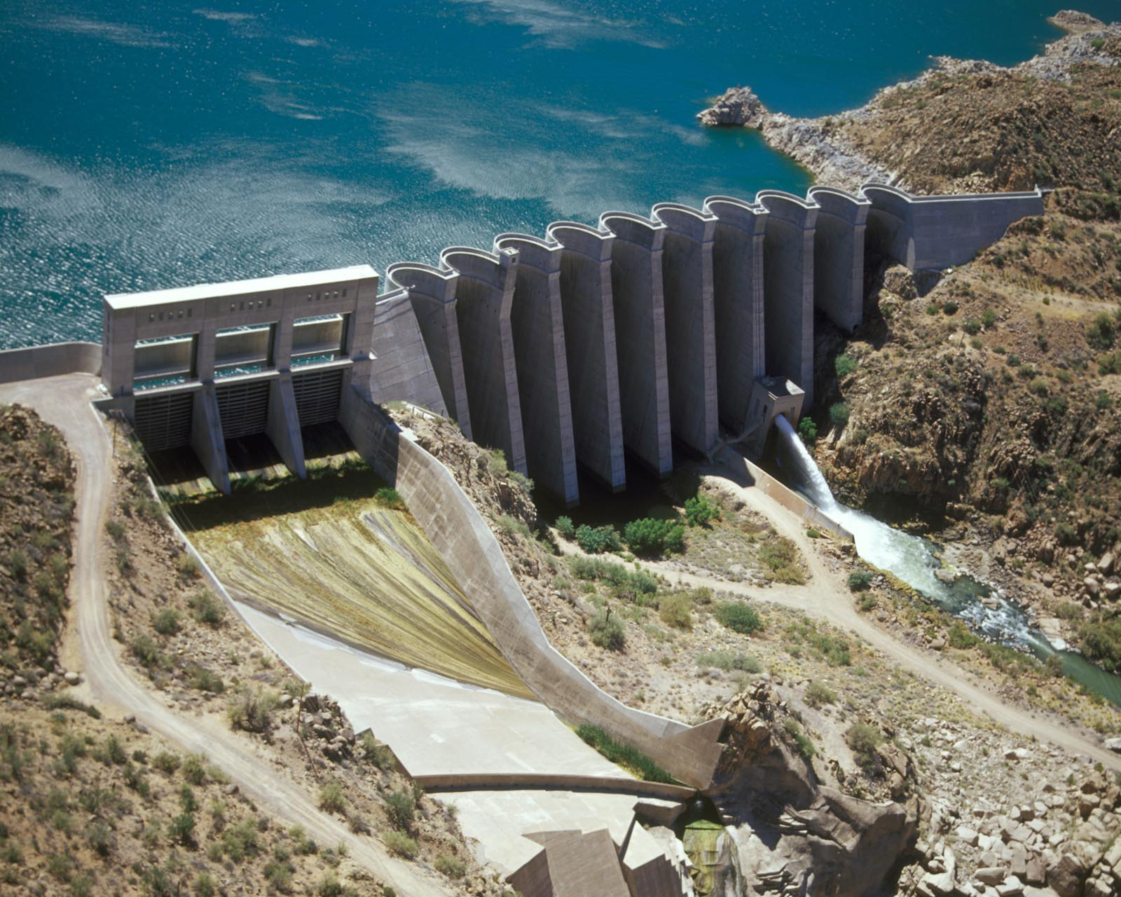 A view of Bartlett Dam